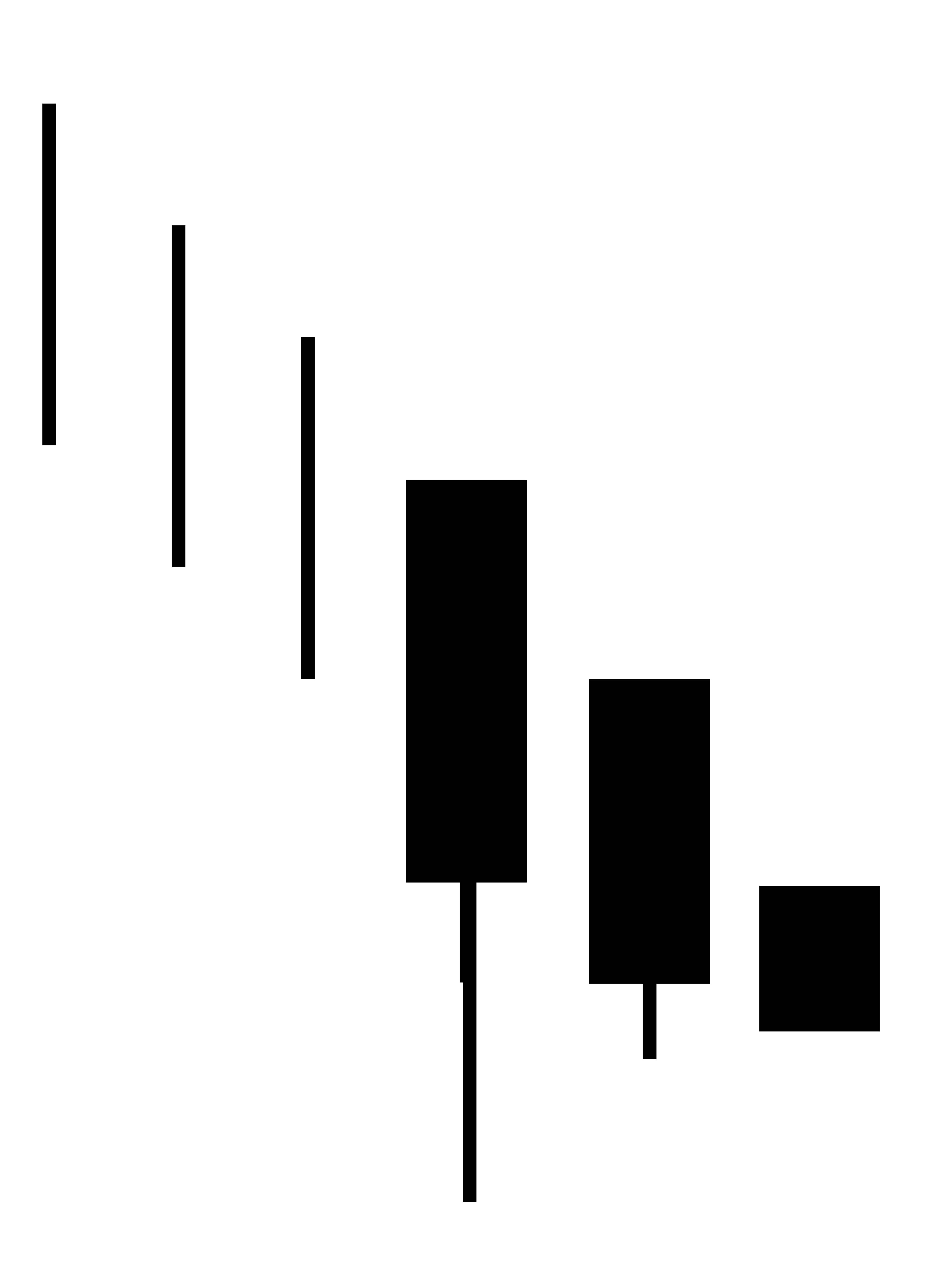 Bullish Three Star in the South